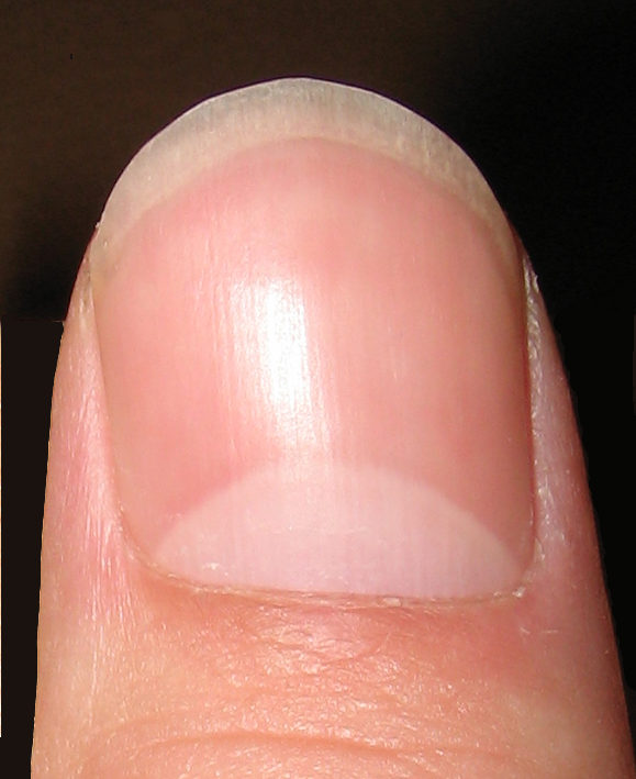 Thumbnail about 2,5 mm long.